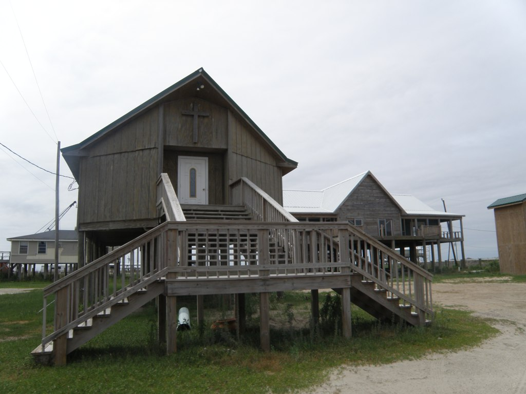 Wooden church, Grand Isle, Louisiana.